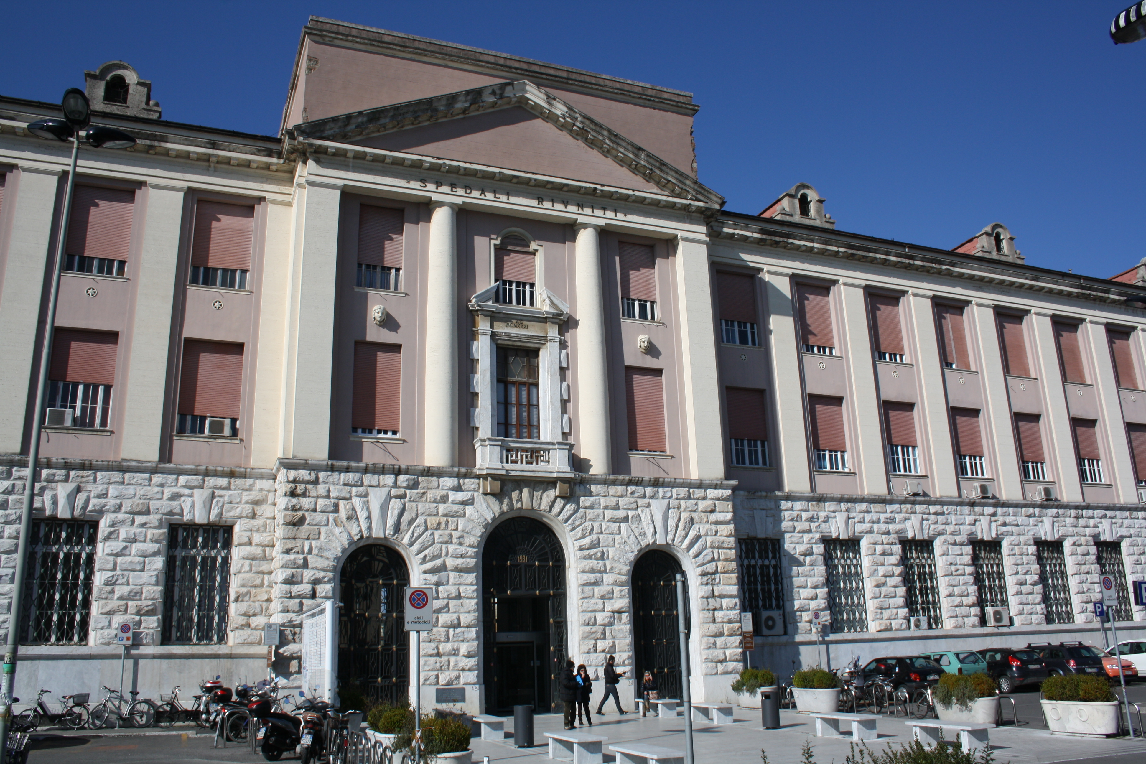 Livorno, Spedali Riuniti, the hospital administration bulding.